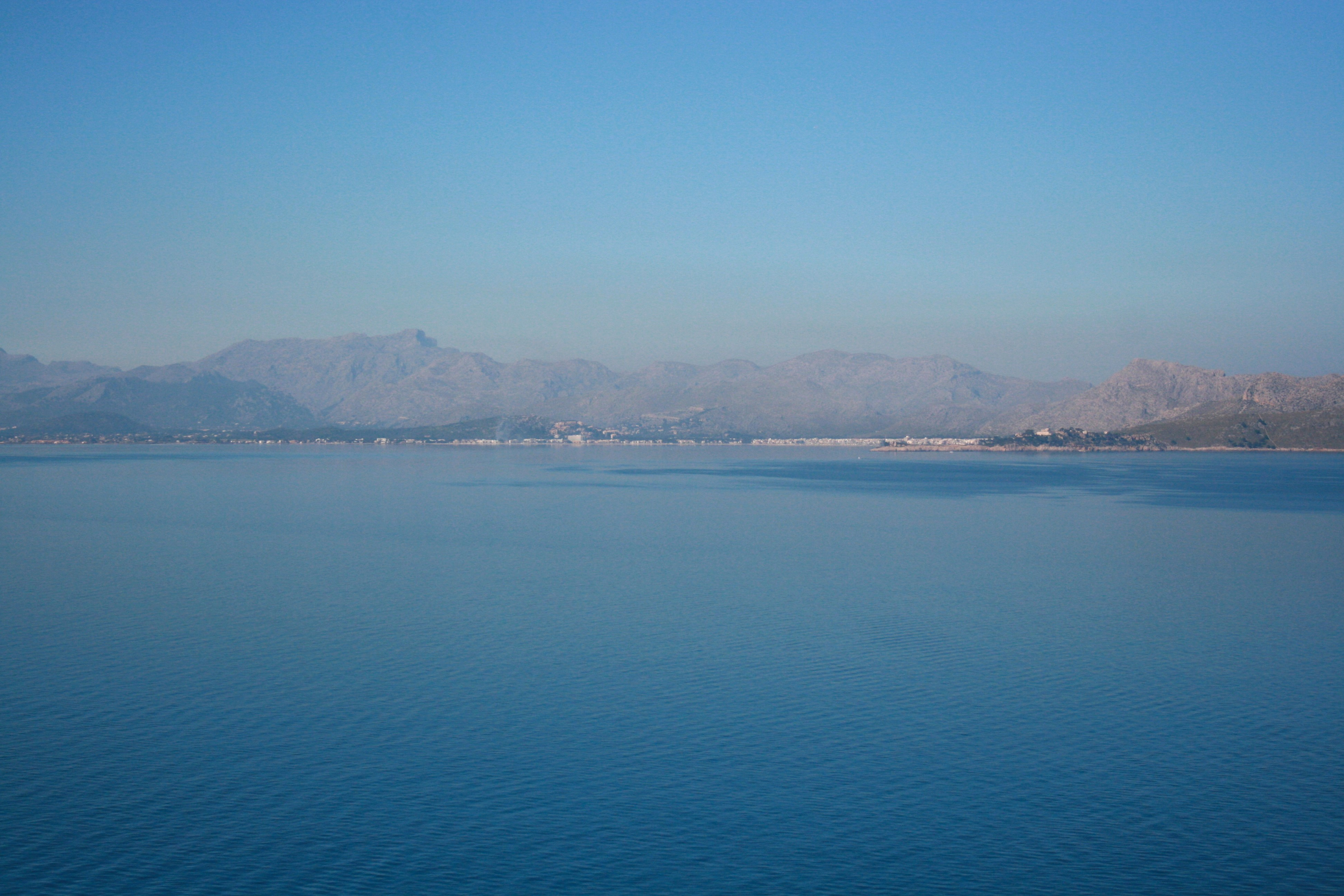 Badia de Pollença, viewed from the peninsula of La Victòria, Alcúdia, Mallorca